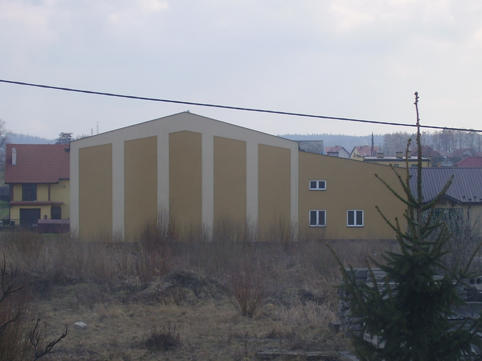 sports hall next to school in Rzezawa (Poland)